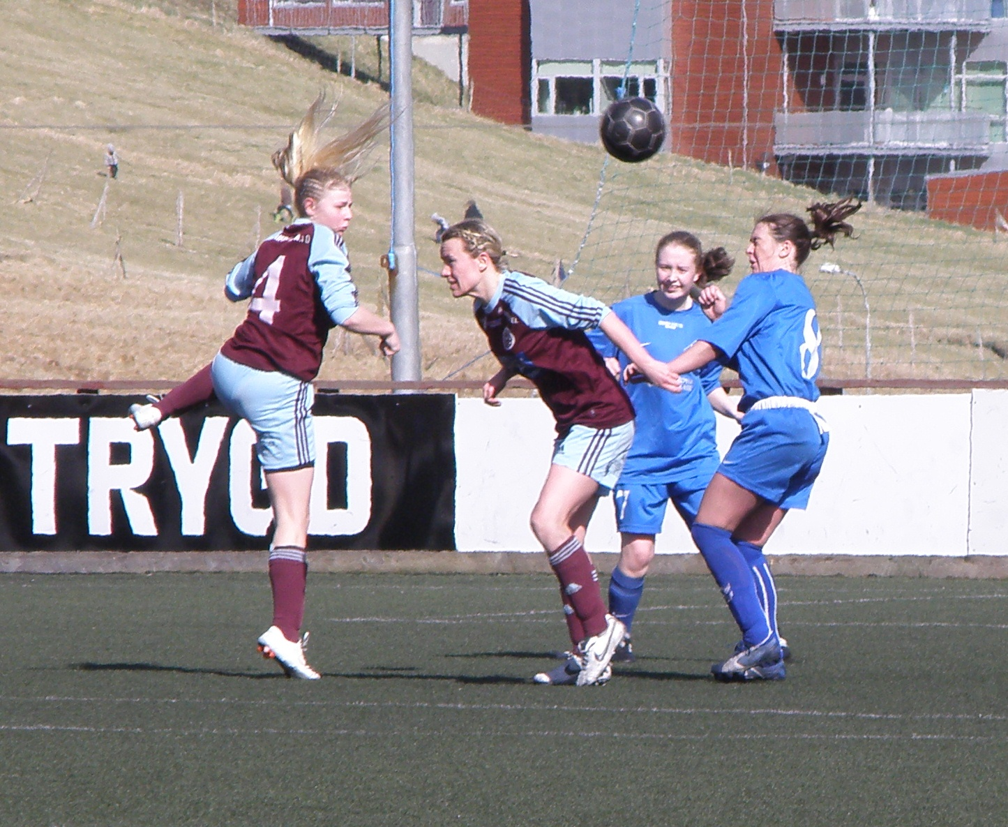 Football (soccer) match in the women's best division in the Faroe Islands between FC Suðuroy and AB Argir. The match was played on 9 April 2012. AB Argir won the match 5-0.